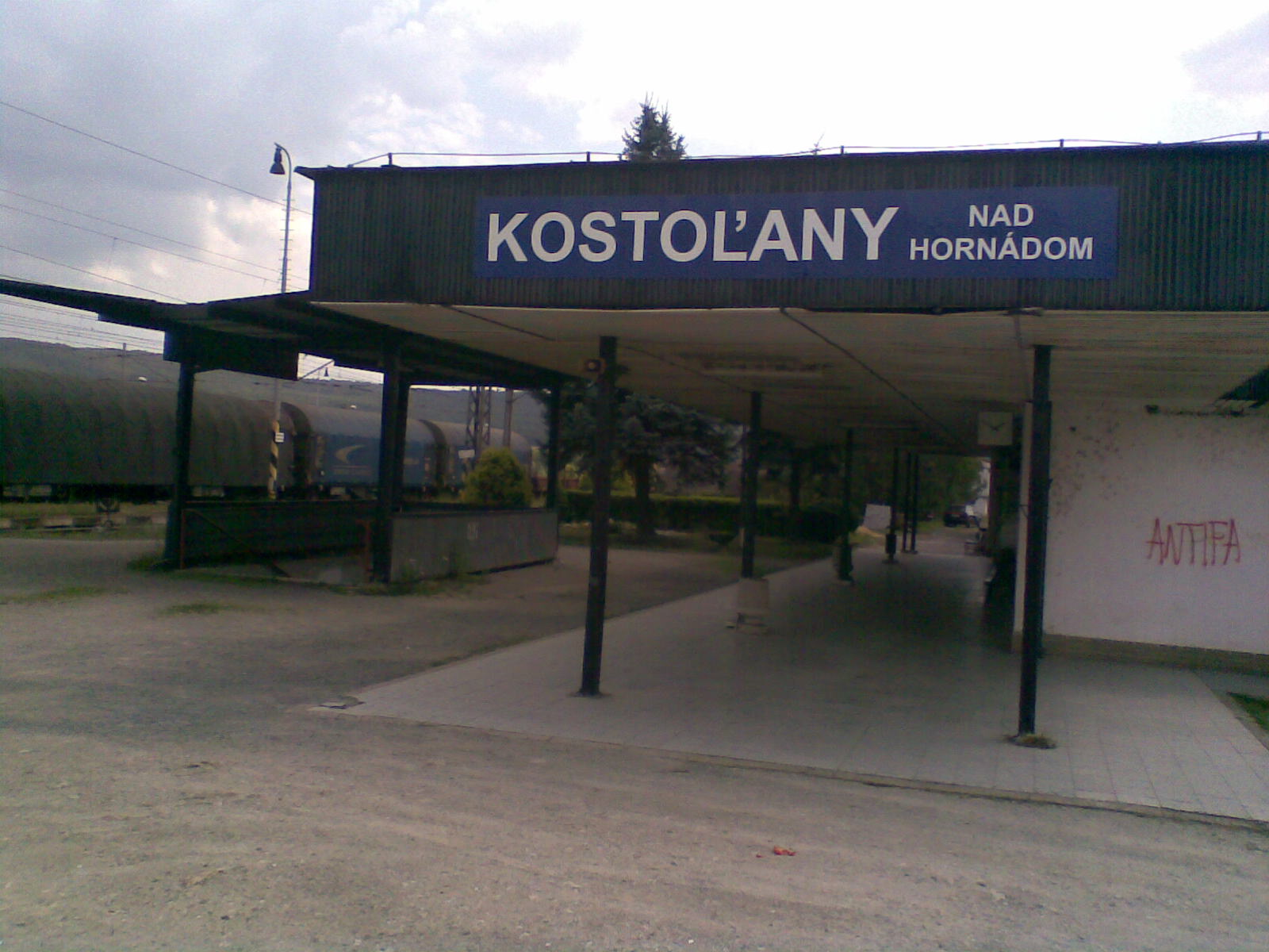 Kostoľany nad Hornádom (Railway Station)